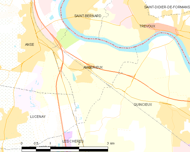 Map of French municipality